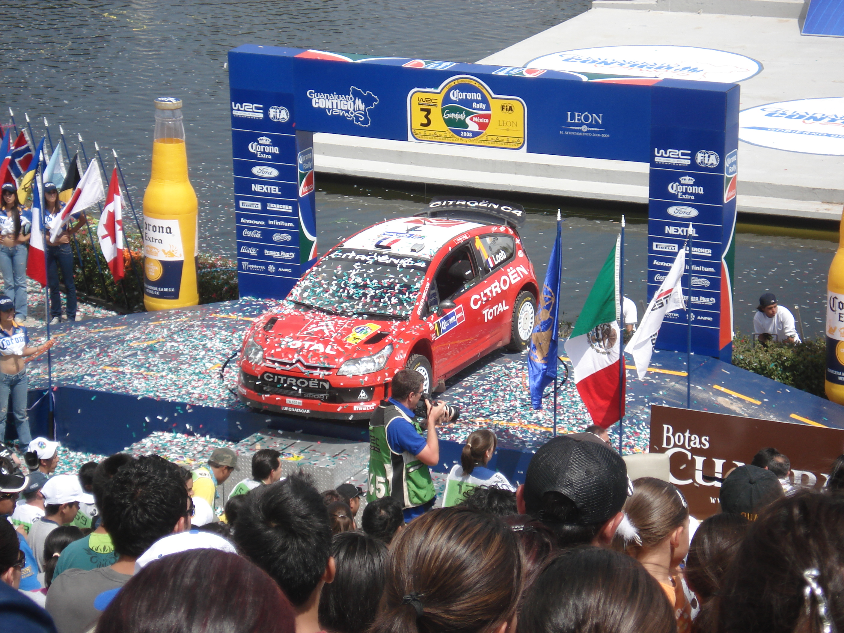 Sebastien Loeb's Citroen C4 WRC car covered in confetti on the winner's podium after his win in the 2008 Rally Mexico.